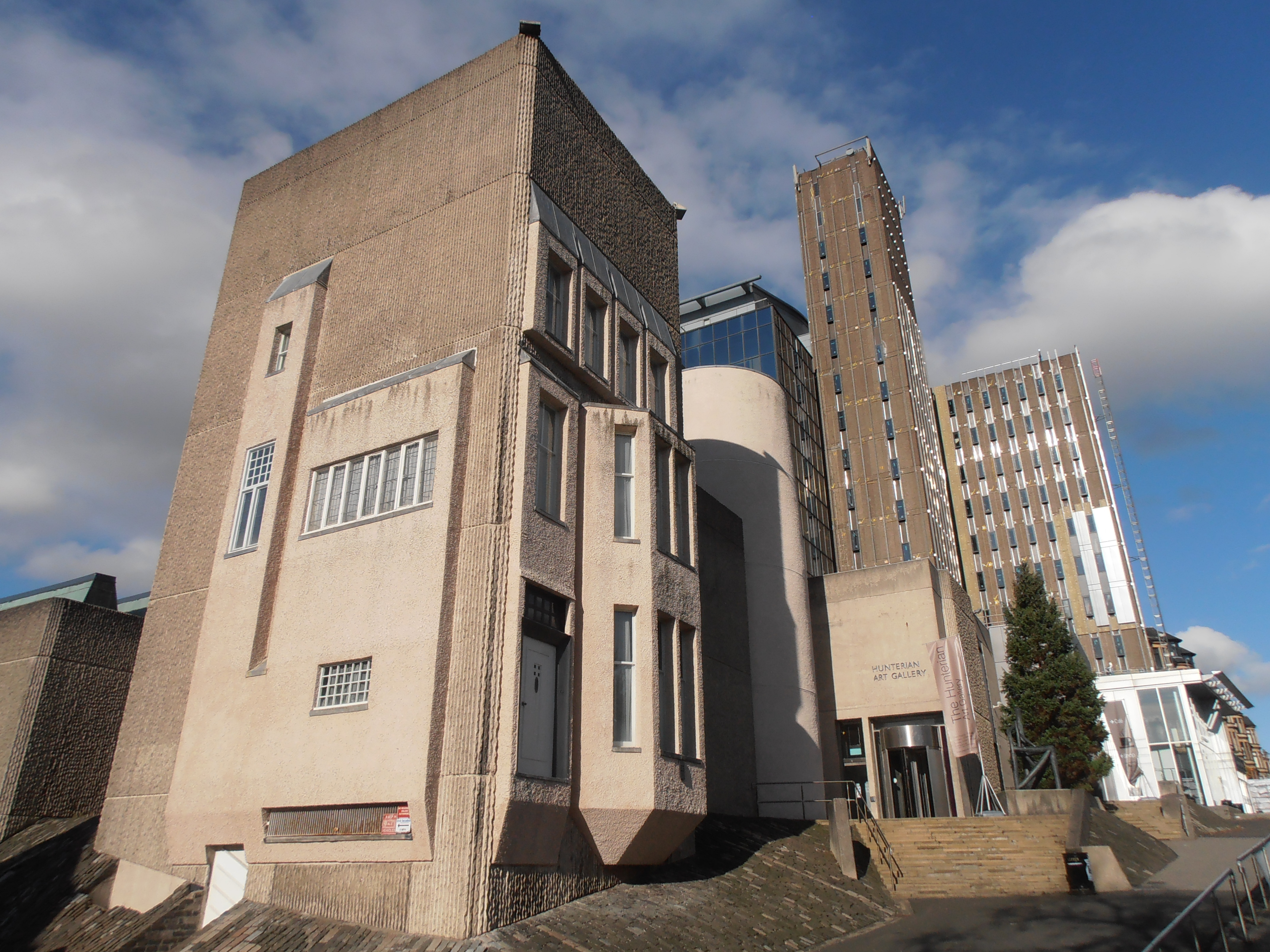 Hunterian Museum and Art Gallery, University of Glasgow